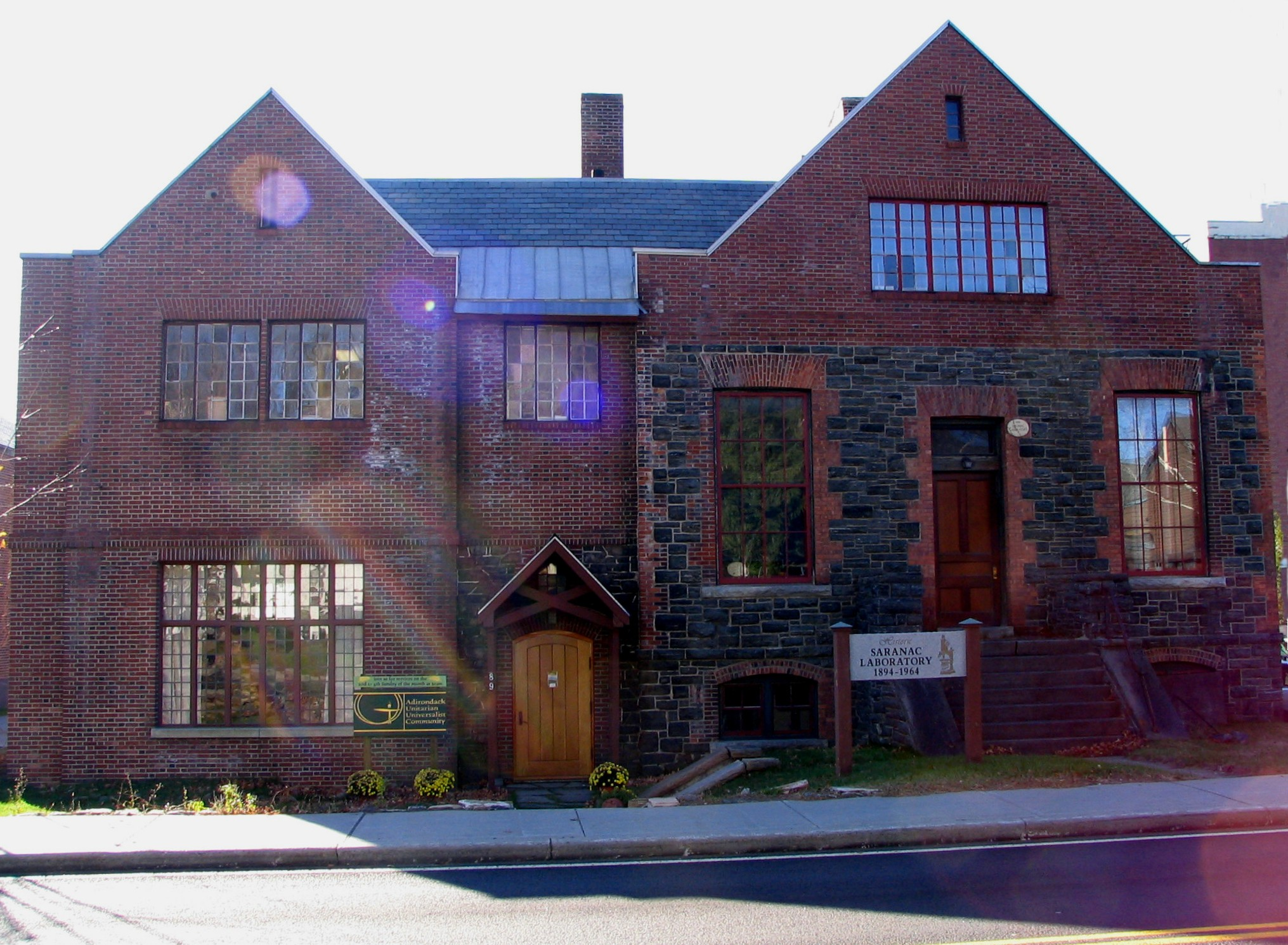 Saranac Lake - Trudeau Lab, precursor to the Trudeau Institute. Taken by User:Mwanner, 2 November, 2007.